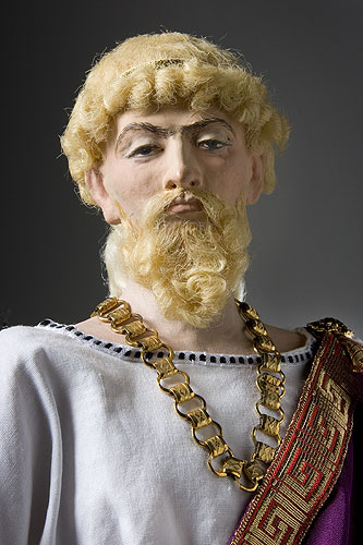 Historical Mixed Media Figure of Dionysius of Syracuse produced by artist/historian George S. Stuart and photographed by Peter d'Aprix. This image, from the George S. Stuart Gallery of Historical Figures® archive ( is provided for all uses with appropriate attribution. Any derivatives must be shared in the same manner. Contributor mharrsch is webmaster for the gallery site